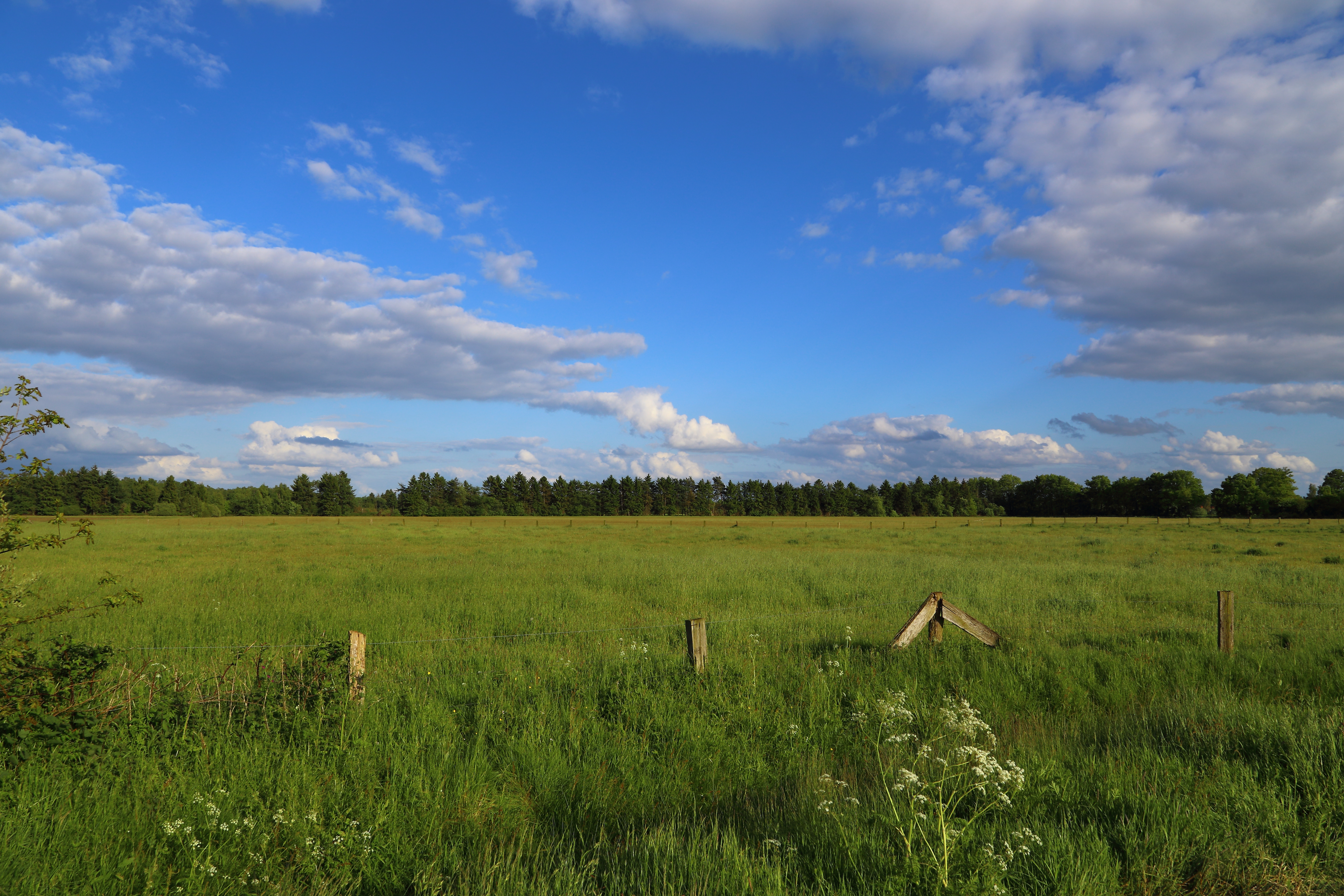 Nature reserve (Naturschutzgebiet) „Halverder Moor“ in Hopsten-Halverde, Kreis Steinfurt, North Rhine-Westphalia, Germany.